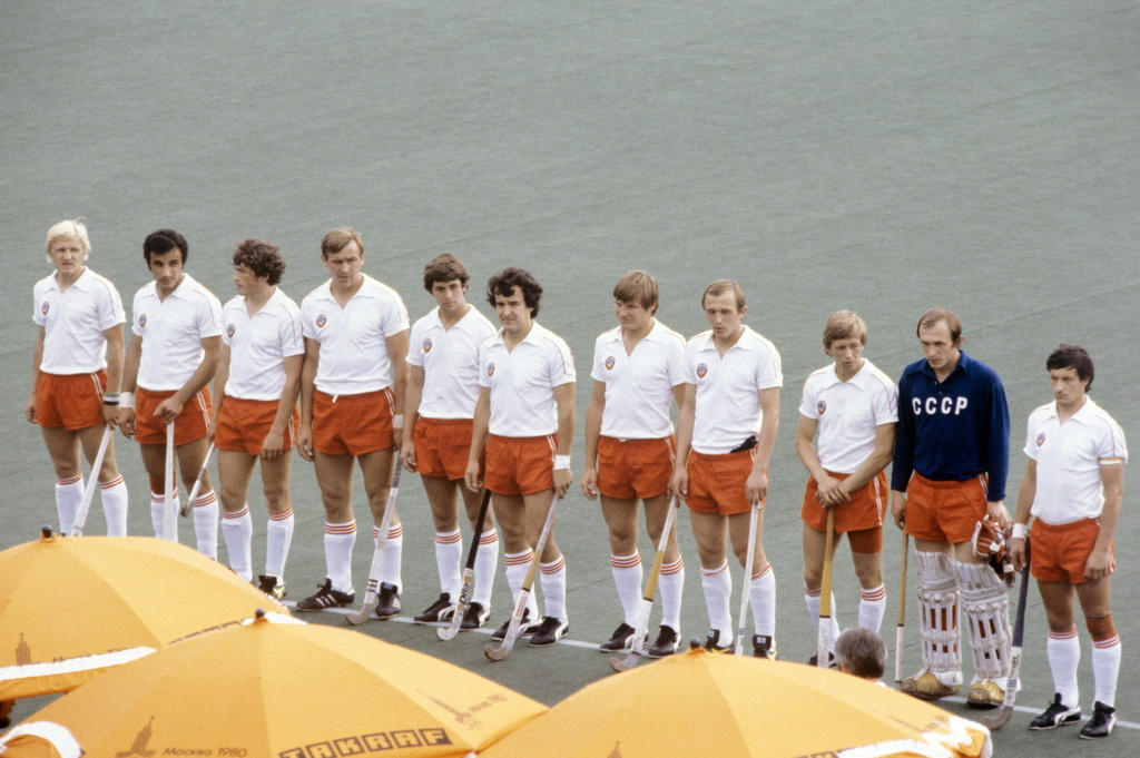 “USSR field hockey team at the 1980 Olympic Games”. The USSR field hockey team making its debut at the 1980 Olympic Games.